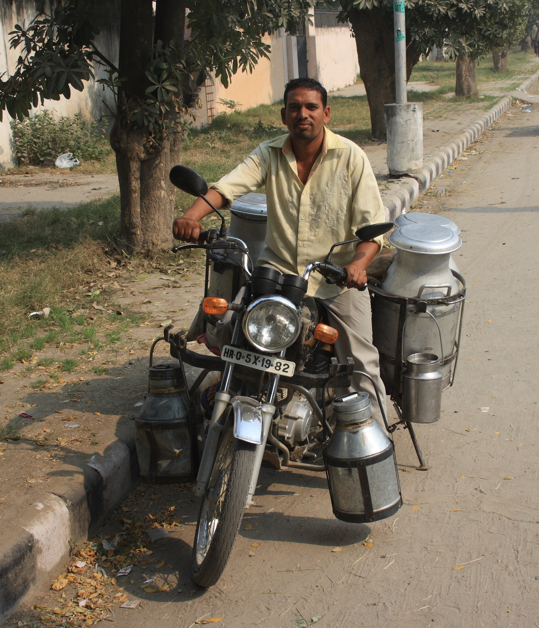 The milk man doing his deliveries transporting all his milk churns on his motorcycle. Taken at Karnal, Haryana, India.